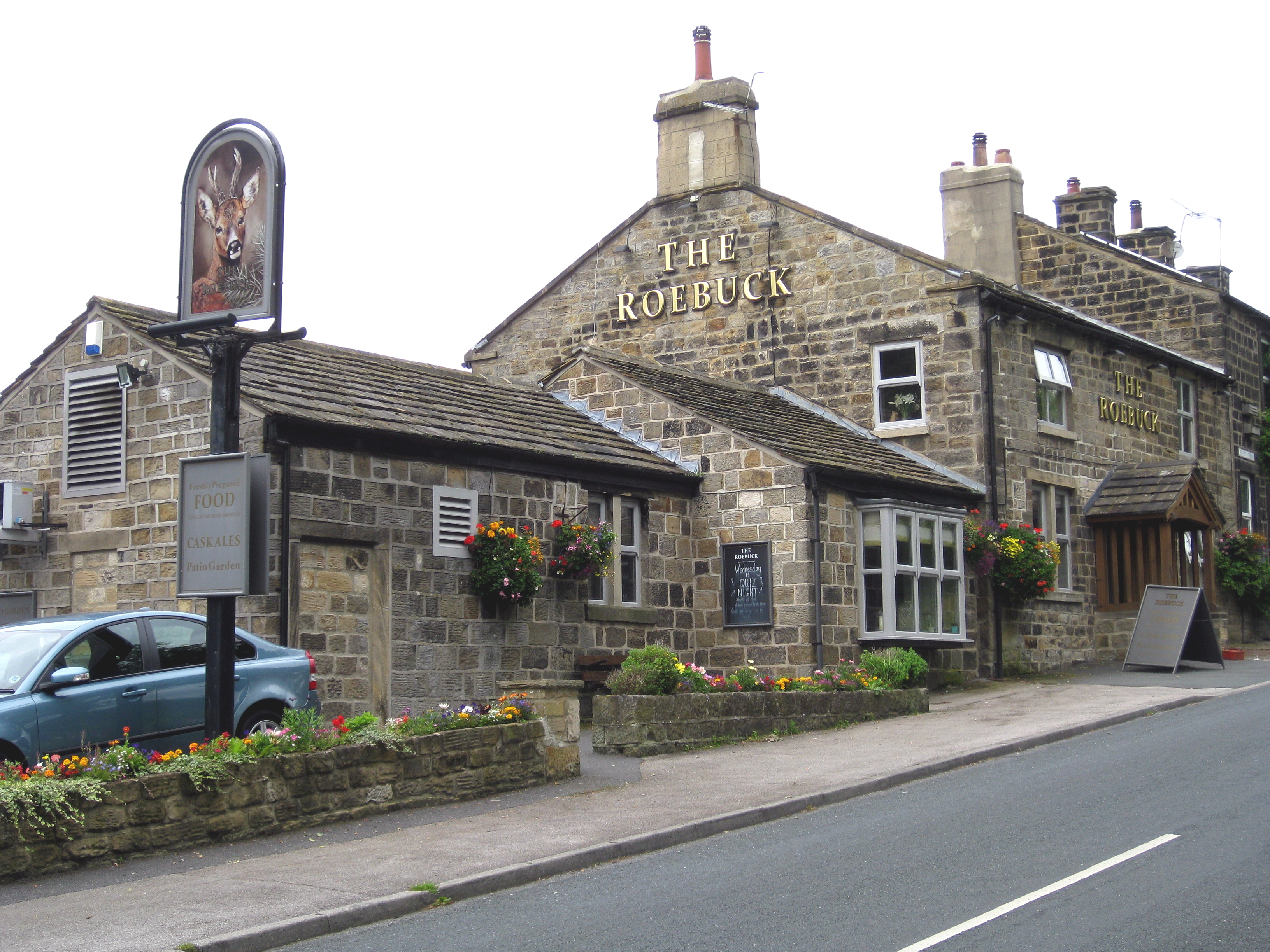 1 Roebuck Lane, Newall With Clifton, Otley LS21 2EY. On the corner with (and viewed from) Newall Carr Road.